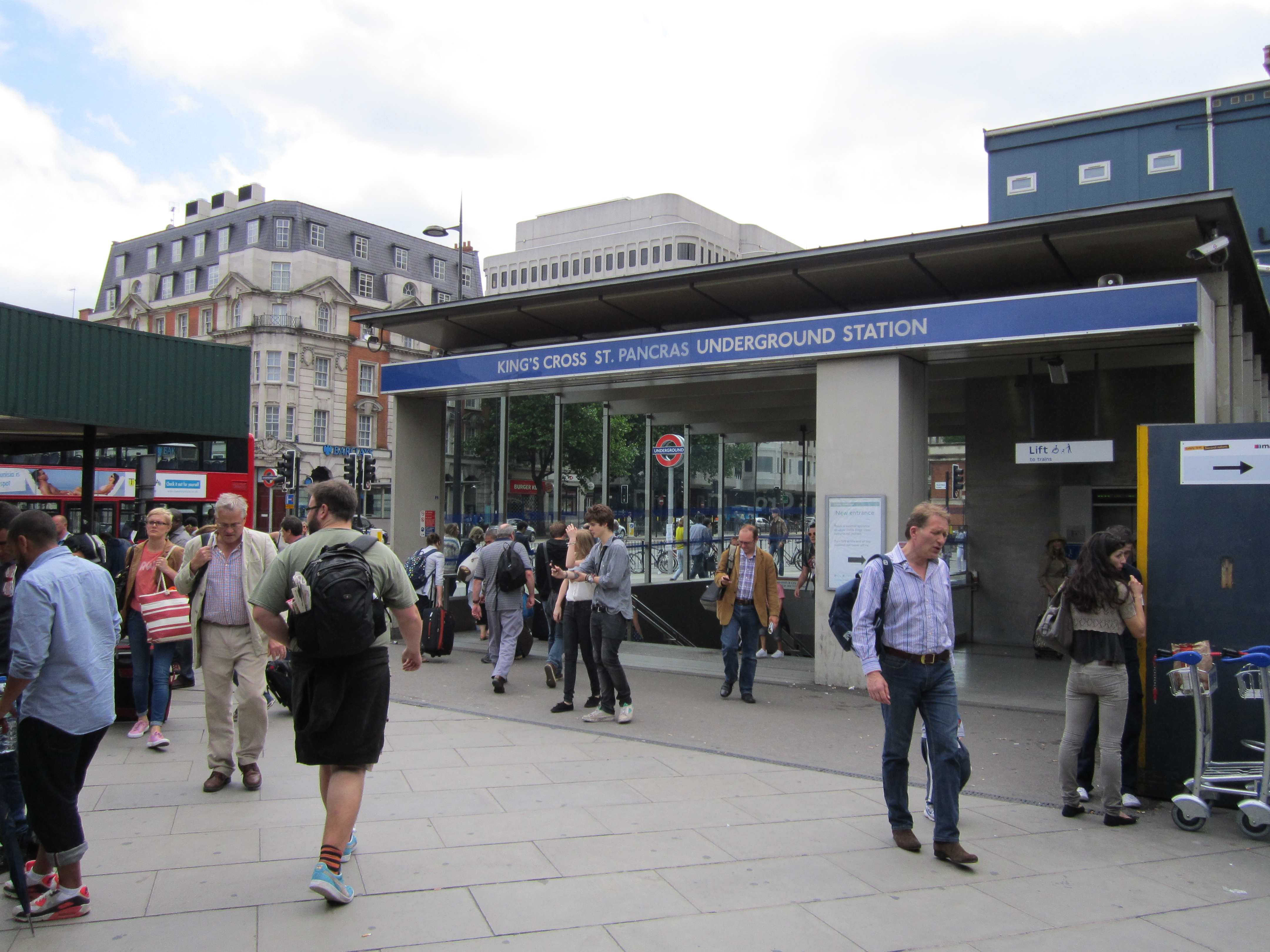 King's Cross St Pancras underground station entrance, London.